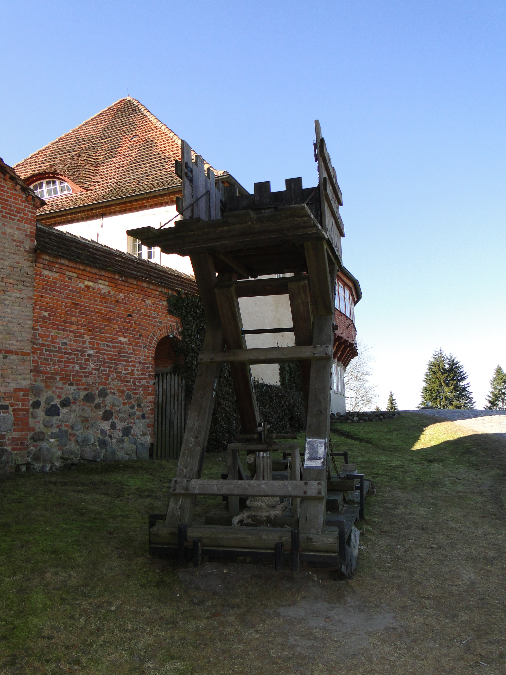 Castle in Burg Stargard, district Mecklenburg-Strelitz, Mecklenburg-Vorpommern, Germany